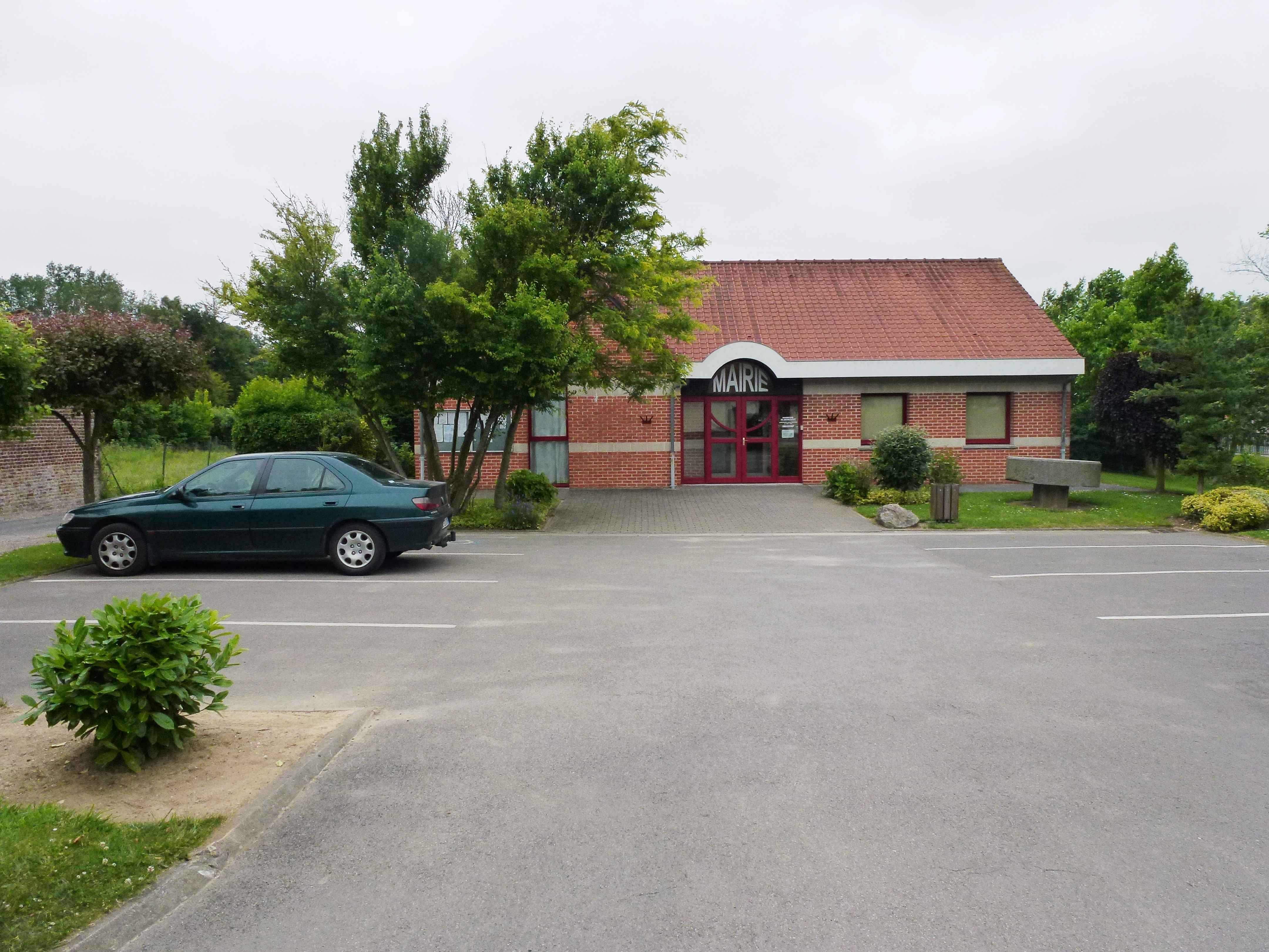 Quernes (Pas-de-Calais) mairie